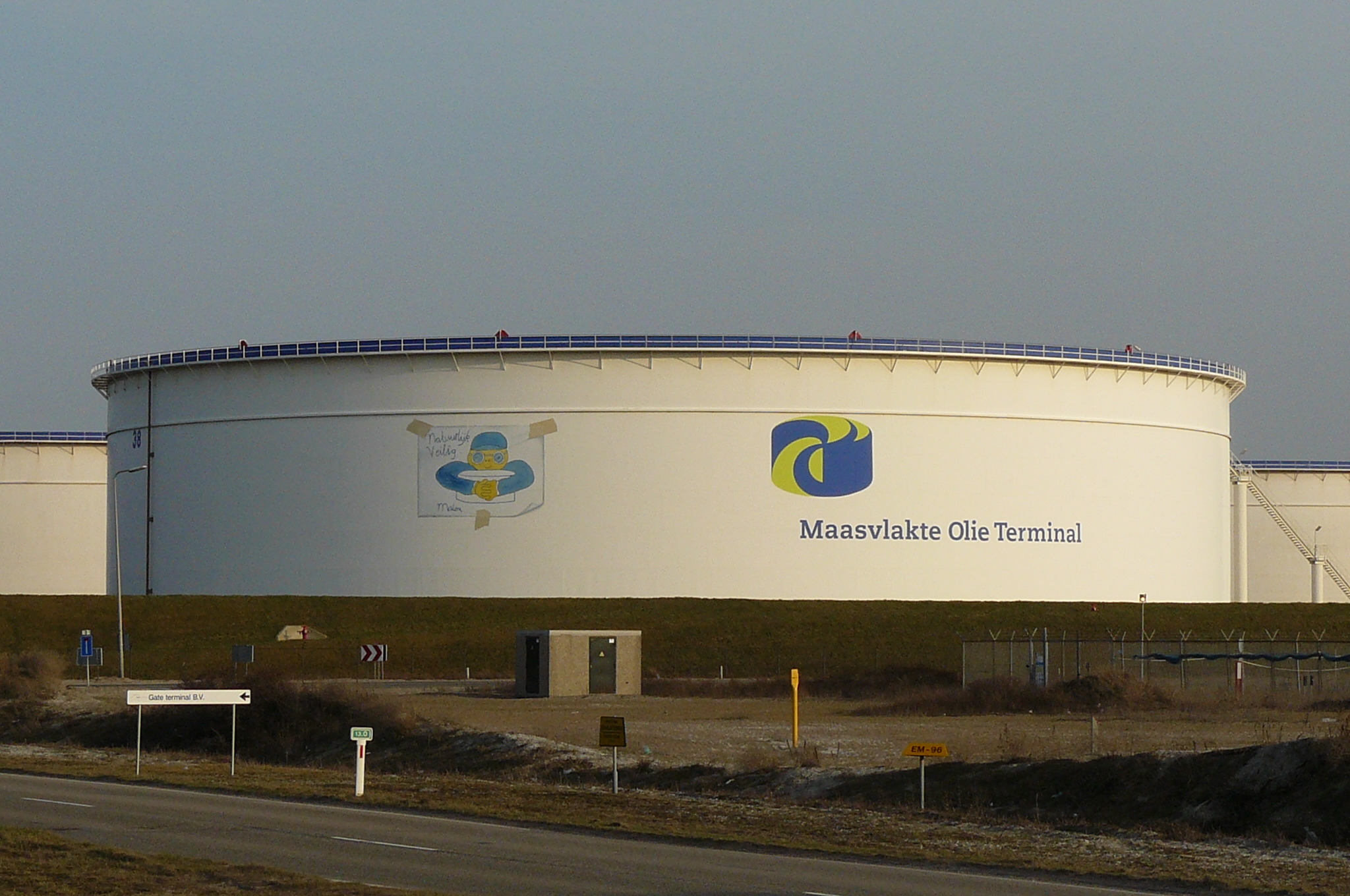 Oil storage tank of the Maasvlakte Olie Terminal in the Port of Rotterdam.